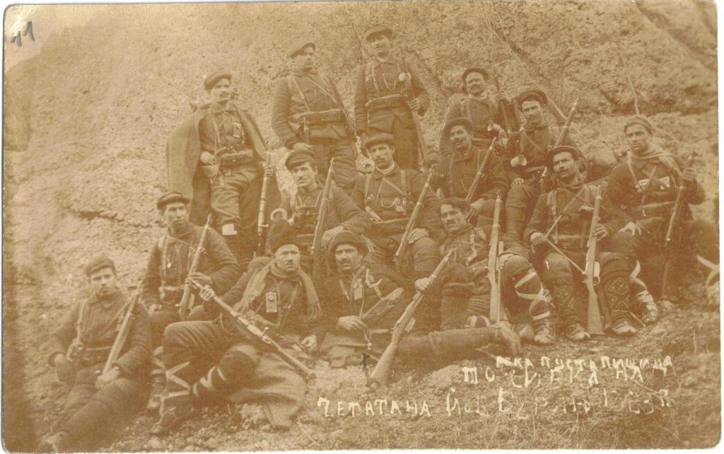 Another postcard with Ivan Burlyo IMRO cheta